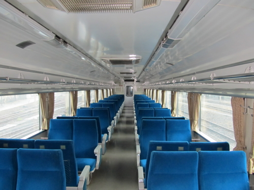 Interior of JNR 14 at Takamatsu. See the photographer's blog.